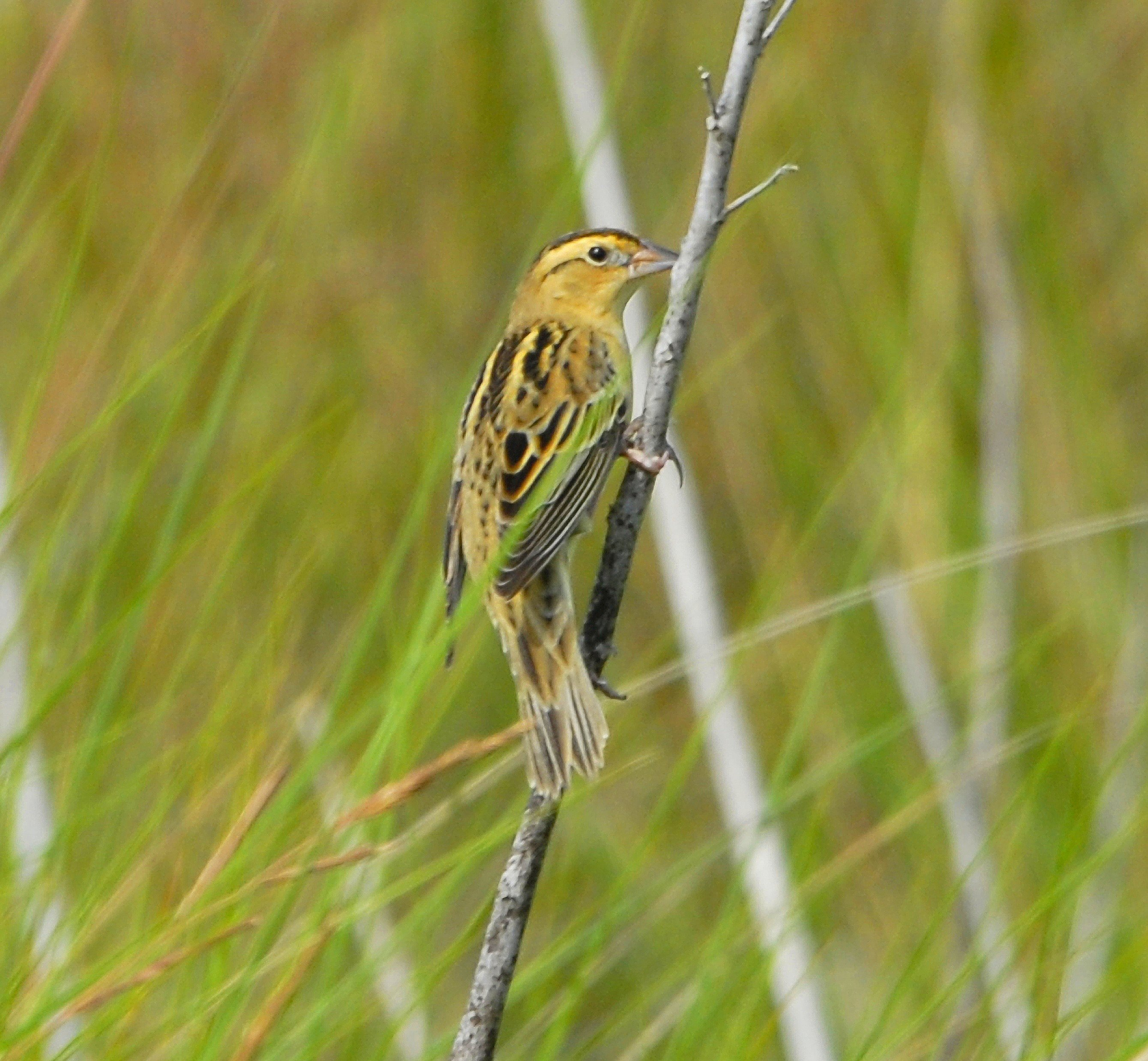 This little lady was near the two male Bobolinks I was photographing but I just thought it was a bird of another species in the area. Researching Bobolink shots on flickr I discovered what she was and so here she is. This was taken at Lake Woodruff National Wildlife Refuge on April 24, 2010.. "Bobolinks, native to the marshlands and rice fields of southwest Brazil, the pampas of Argentina, Bolivia and Paraguay, travel some 6,000 miles from their South American wintering grounds to their breeding grounds in Canada and northern USA, making this one of the longest migrations of any member of the American blackbird family (Martin and Gavin 1995)."